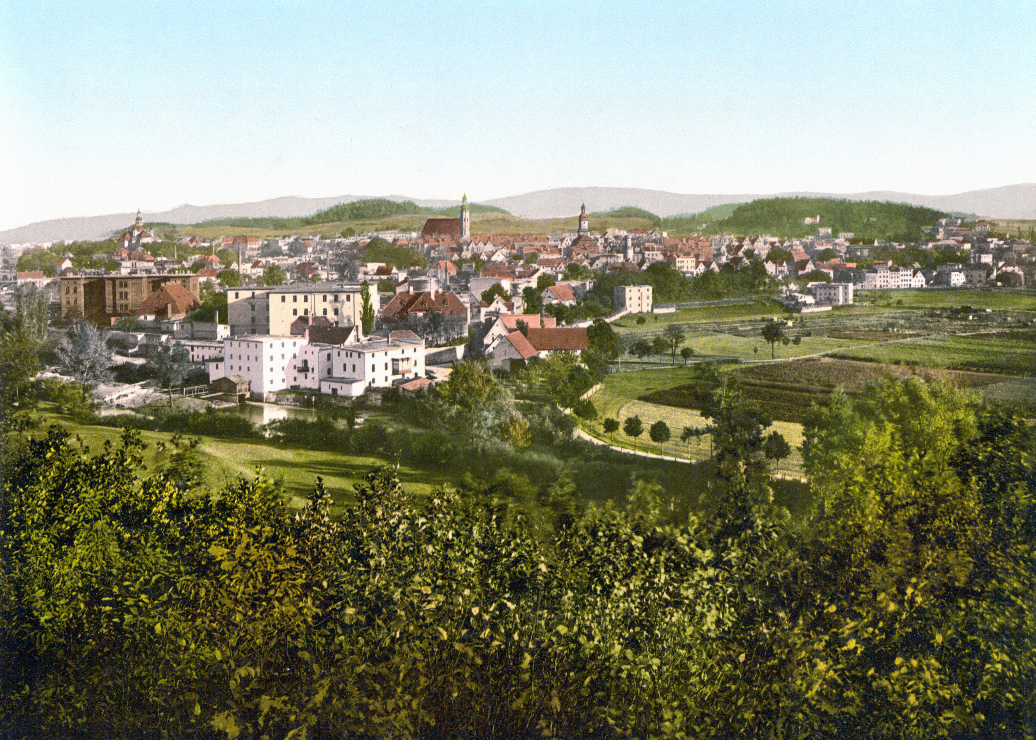 Jelenia Góra ca 1900